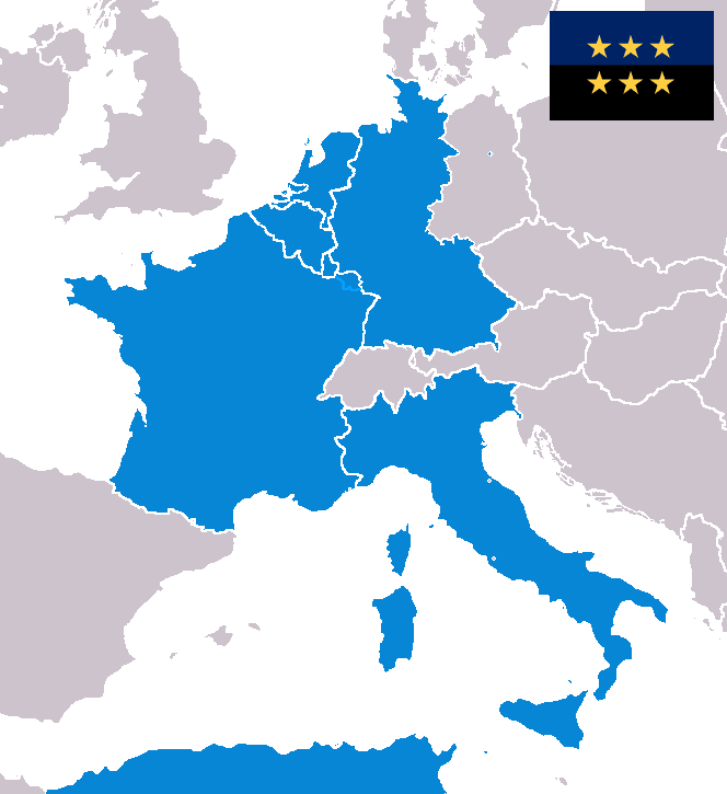 Founding members of the European Coal and Steel Community (1952, inc. territories of FR), with flag.